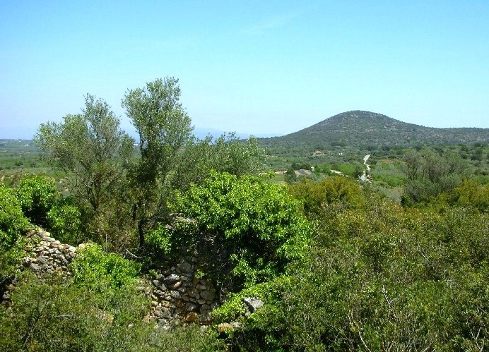 Merades, ghost town located between Ulldecona and Godall, part of the northermost ruins. Coll de Vilallarga hill in the background